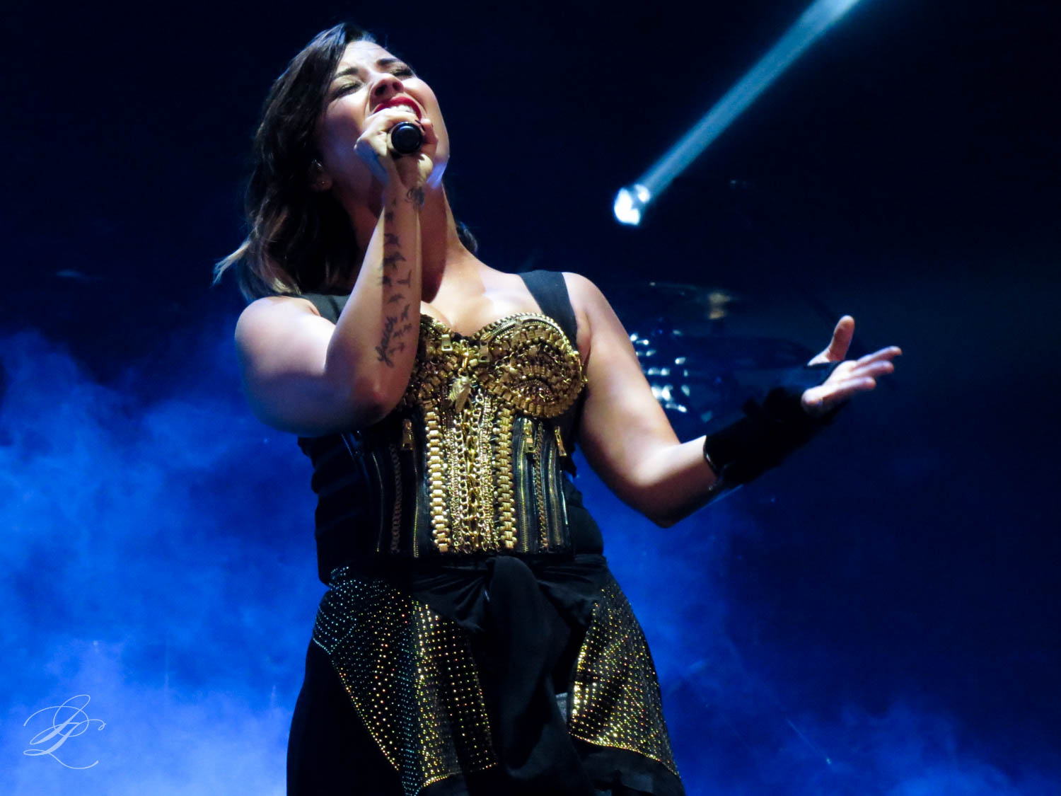 Demi Lovato performs at the Pepsi Center in Denver, CO on September 25, 2014.